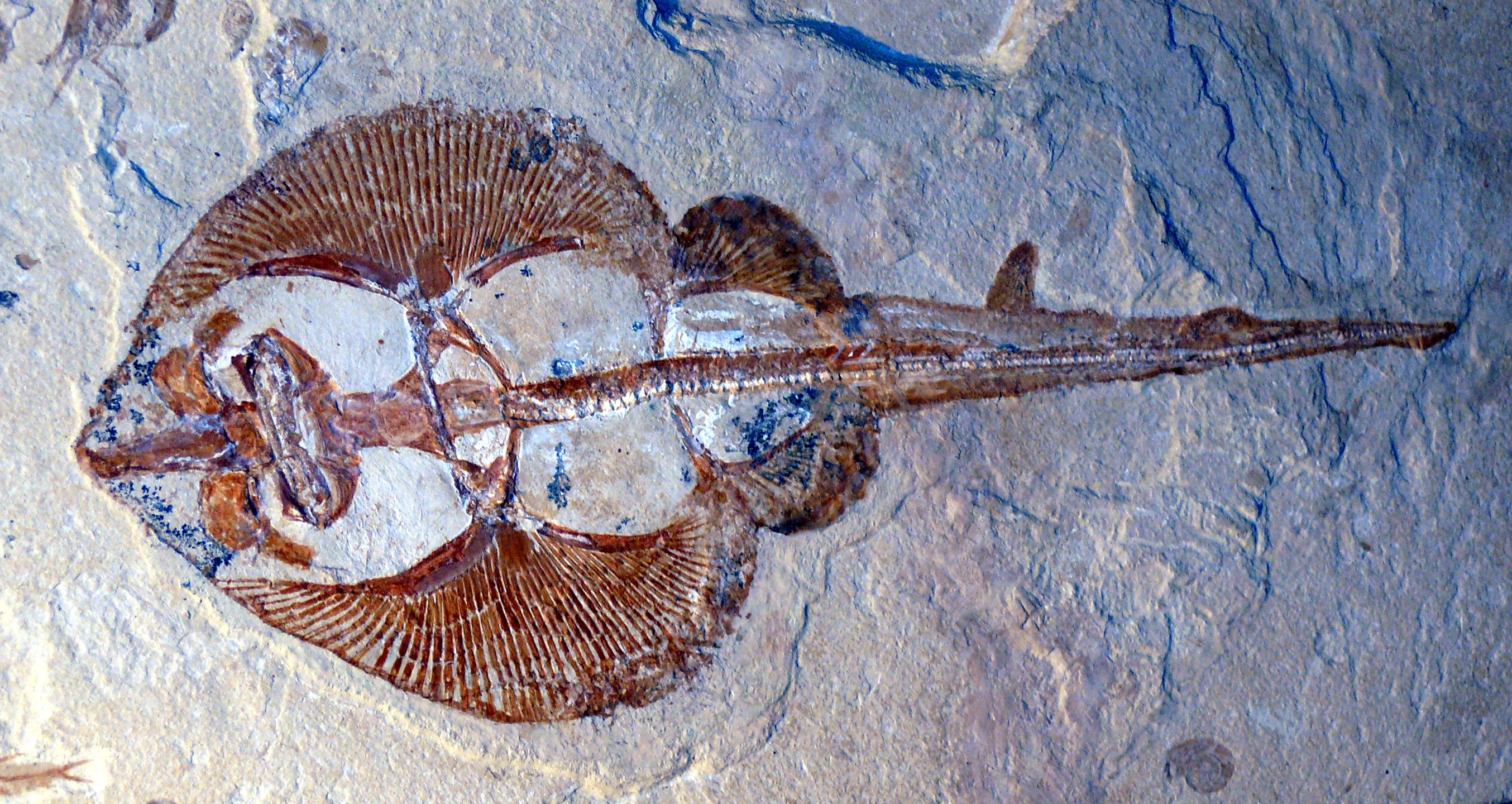 Rhinobatos whitfieldi from the Cretaceous of Lebanon